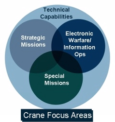 Chart showing Naval Surface Warfare Center Crane Focus Areas